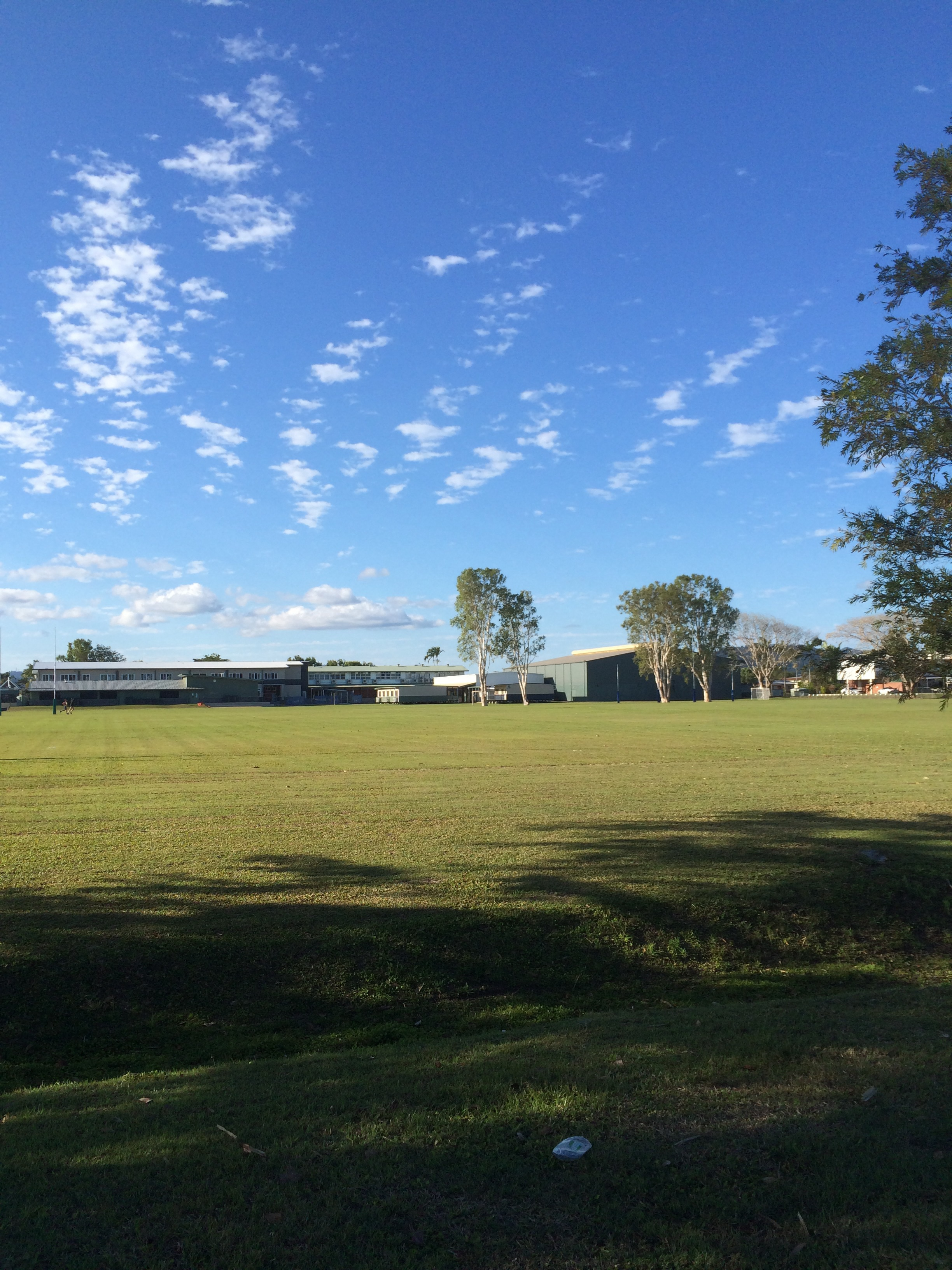 Proserpine High as viewed from Renwick Road